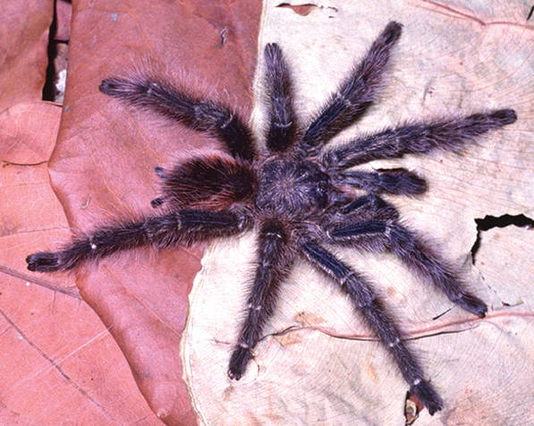 Avicularia taunayi male